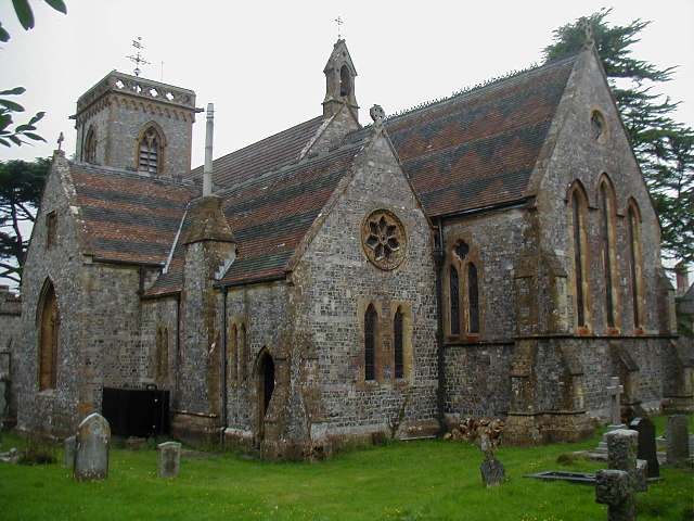 Chardstock Church.